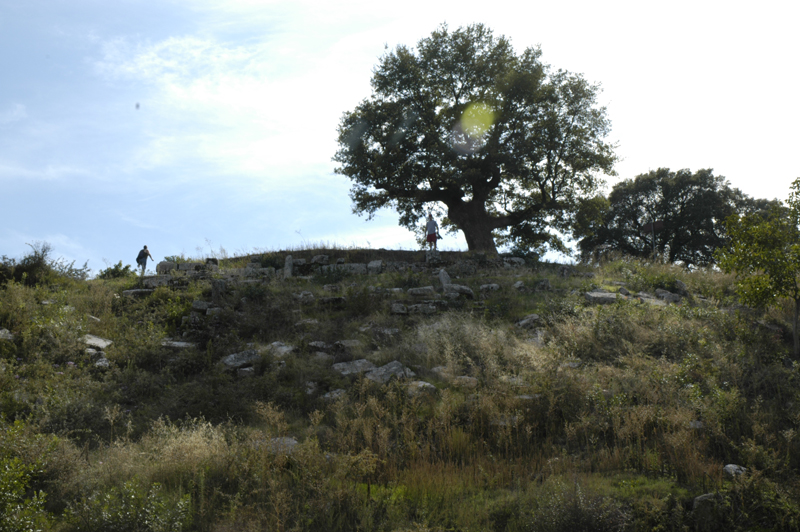 The remains of the Megaron. J. Matthew Harrington, personal digital image